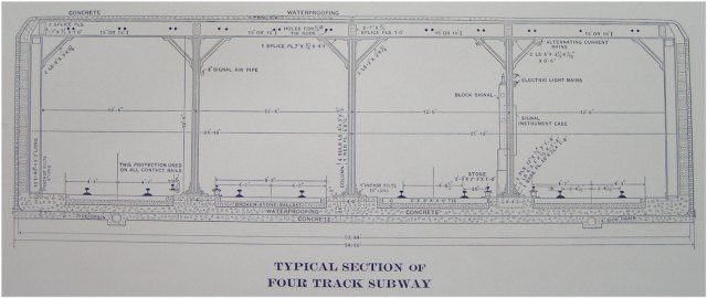 An illustration showing a “Typical Section of Four-track Subway”.